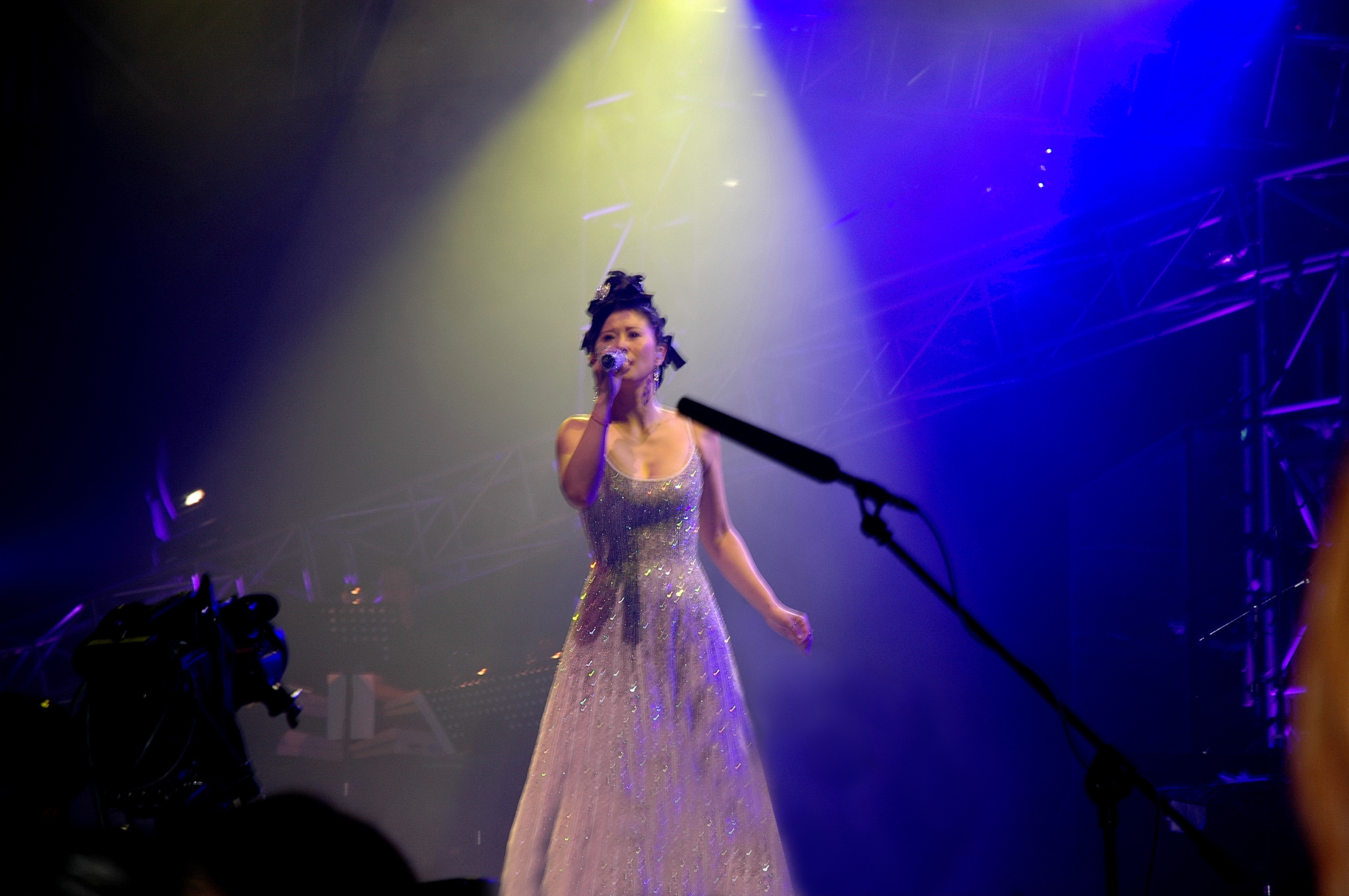 Sally Yeh